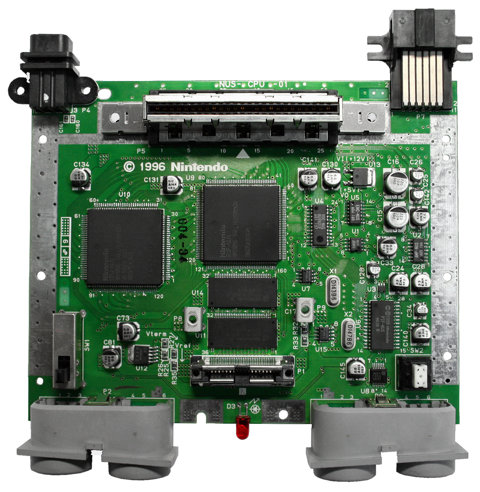 N64 PWB(NUS-CPU-01) FRONT SIDE JP VER